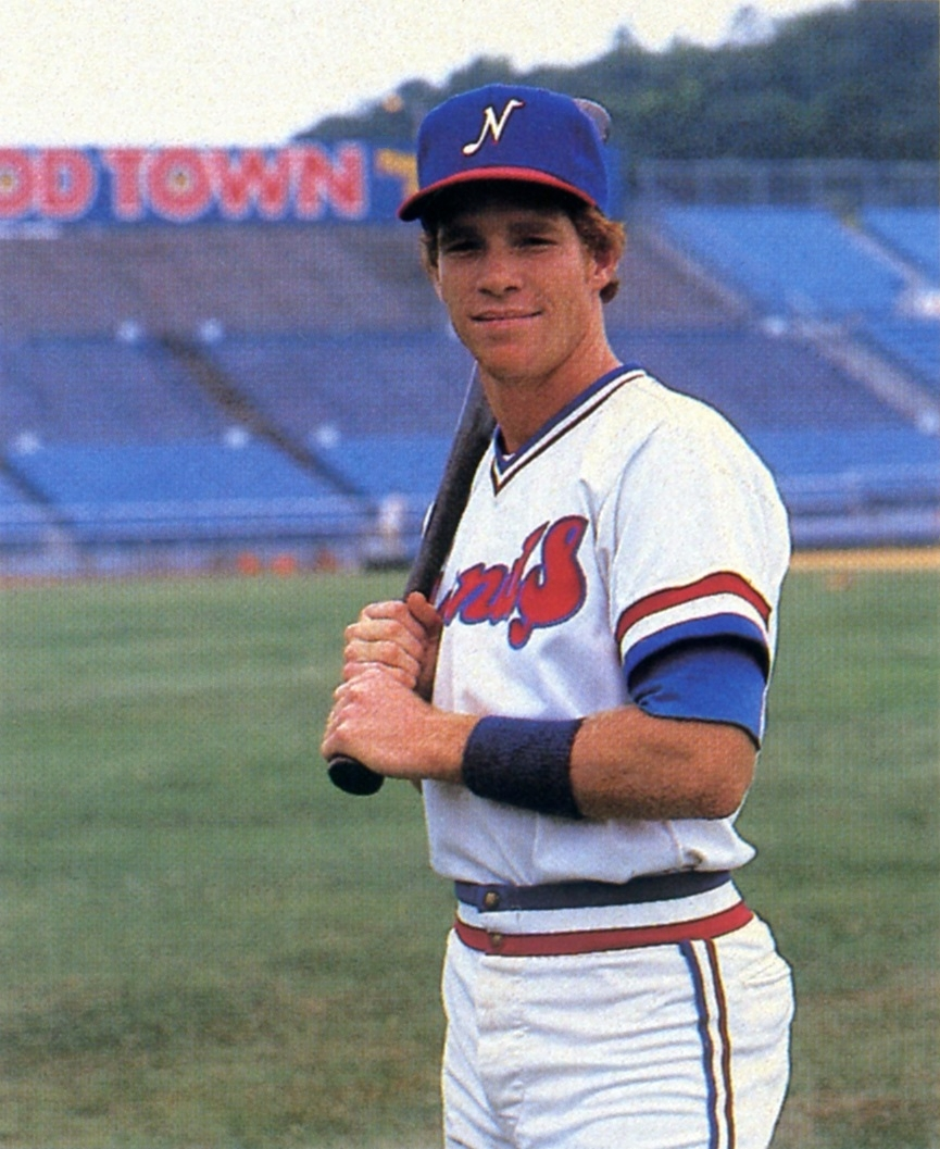 Second baseman Rex Hudler of the 1982 Nashville Sounds Minor League Baseball team of the Southern League